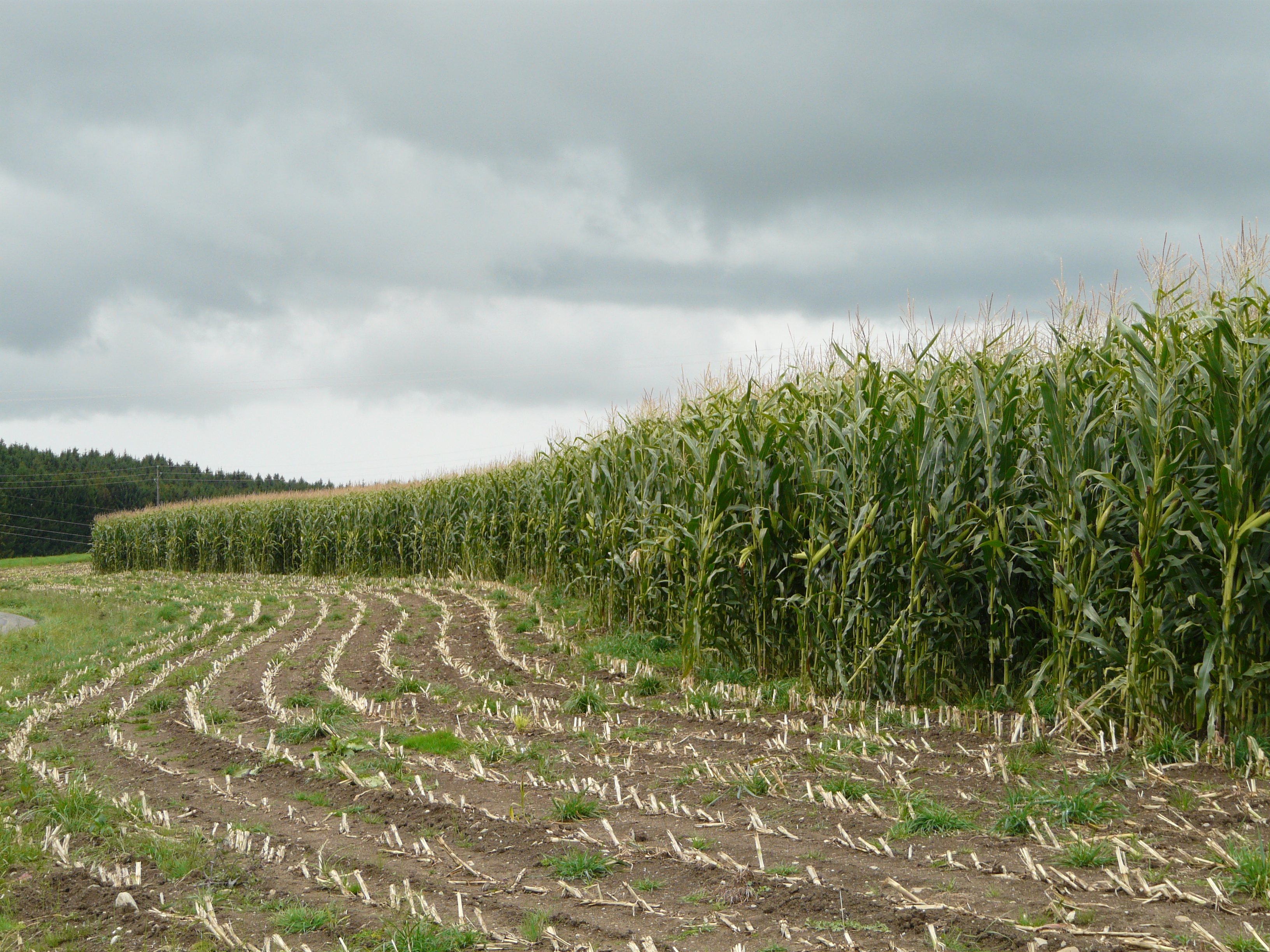 Corn field in Vinzier (northern French Alps), late September 2010